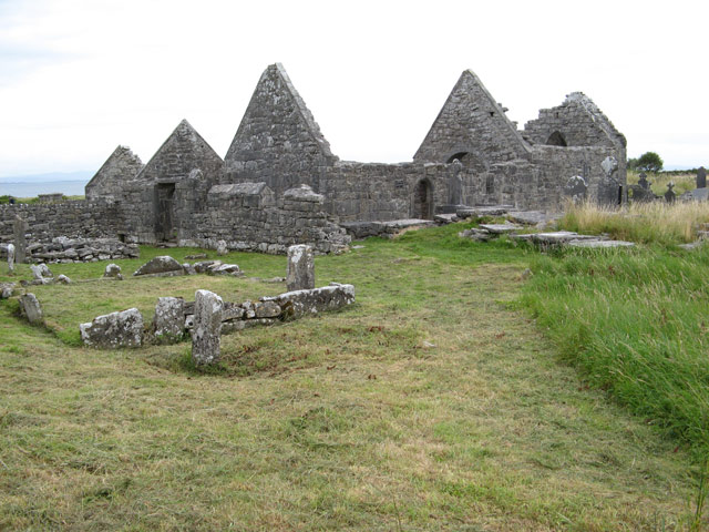 Teampall Brecan The remains of a monastic site with a church, often referred to as the Seven Churches. The church is dedicated to Saint Brecan whose origin is obscure. This site was a major destination for pilgrimage in the Middle Ages, but the present ruins date from around 1200AD. Other buildings around the church are supposed to be hostels for the pilgrims.